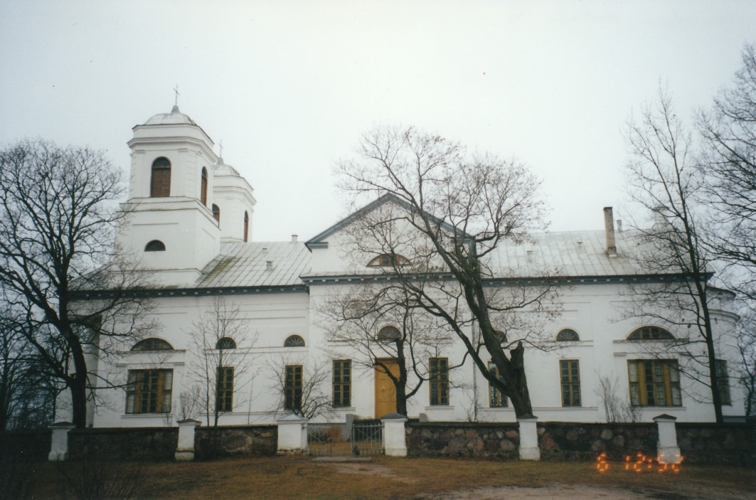 Varakļāni Virgin Mary Assumption into Heaven Roman Catholic Church